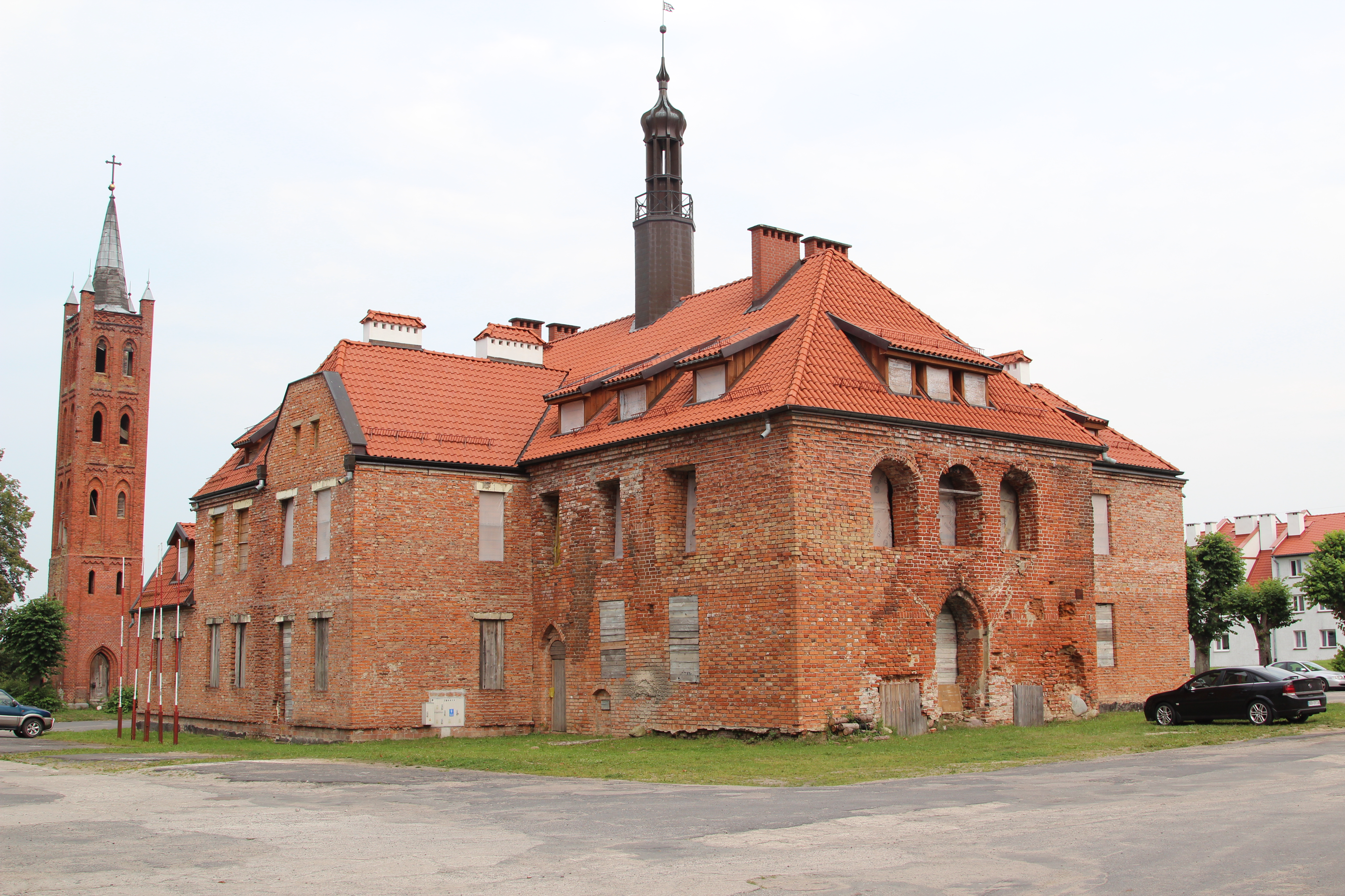 Town hall in Pienieżno under reconstruction.